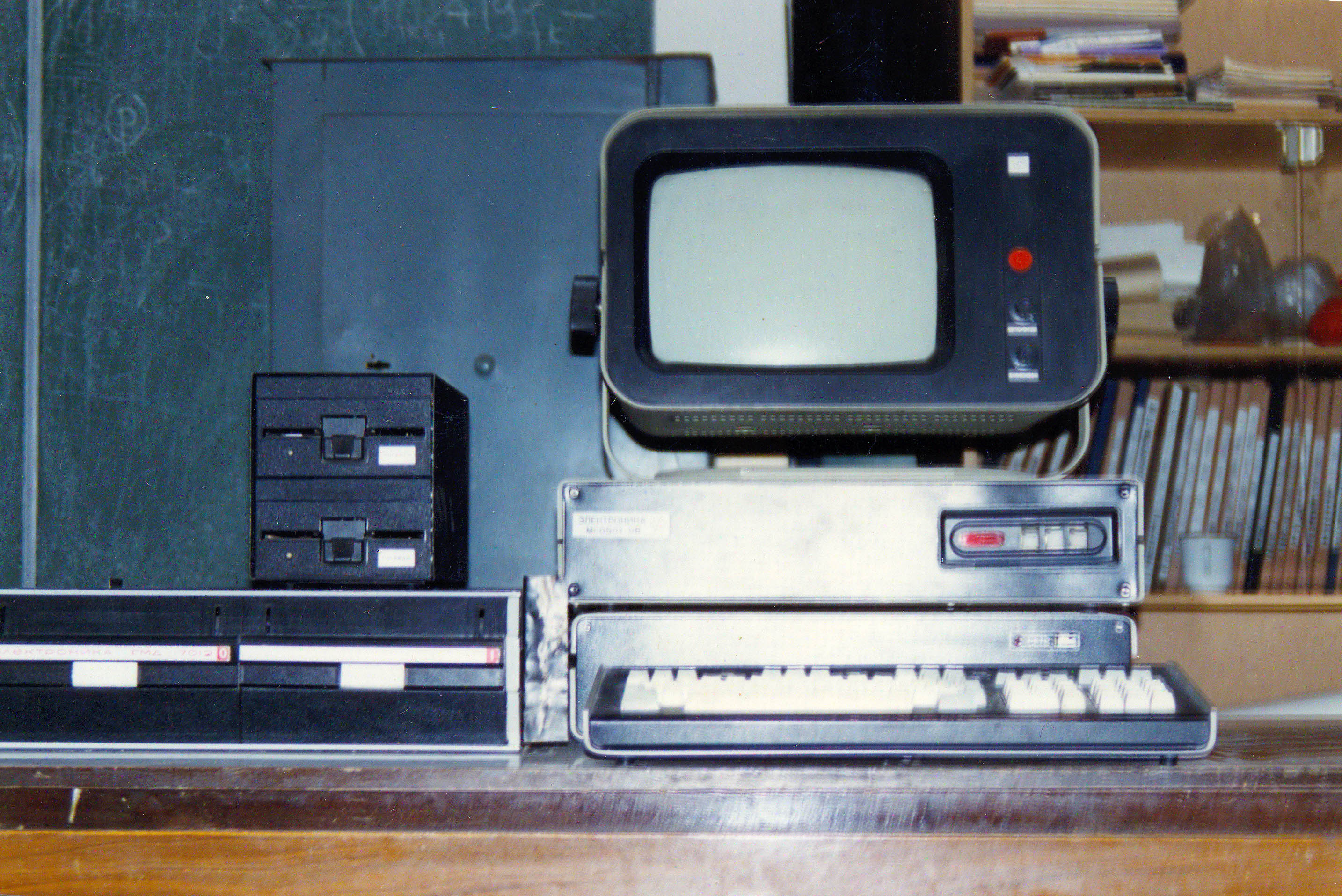 First Armenian Computer - Electronika 60